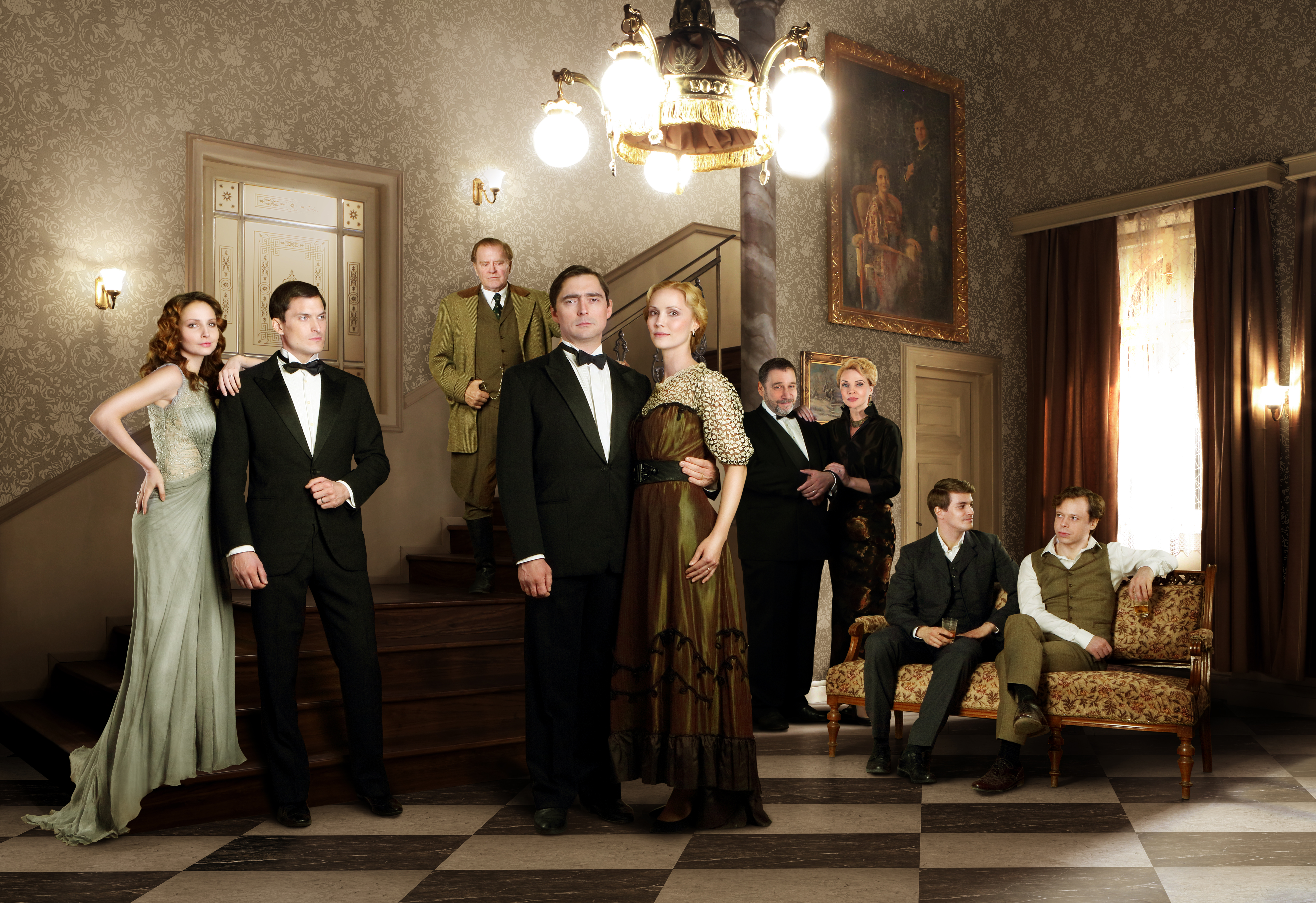 První republika (seriál)